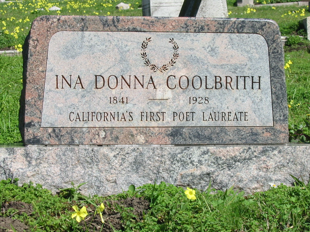 Photograph of the headstone of Ina Donna Coolbrith, taken in Mountain View Cemetery, Oakland, California.